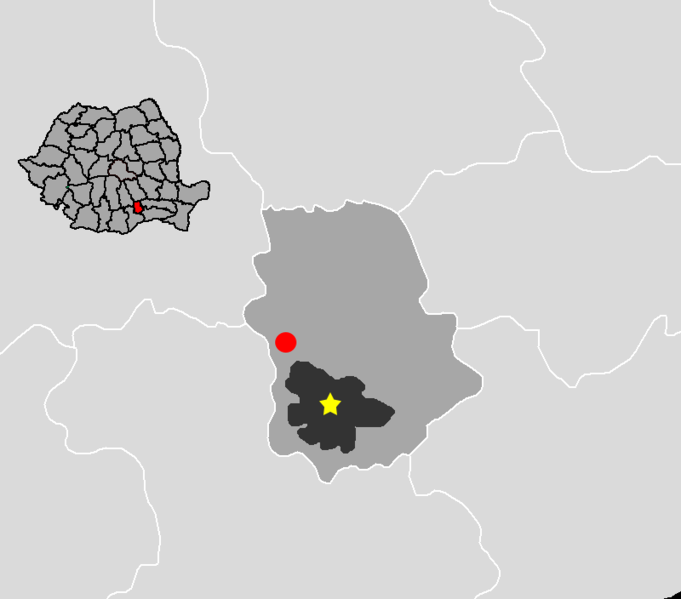 Source: Ilfov Base.png